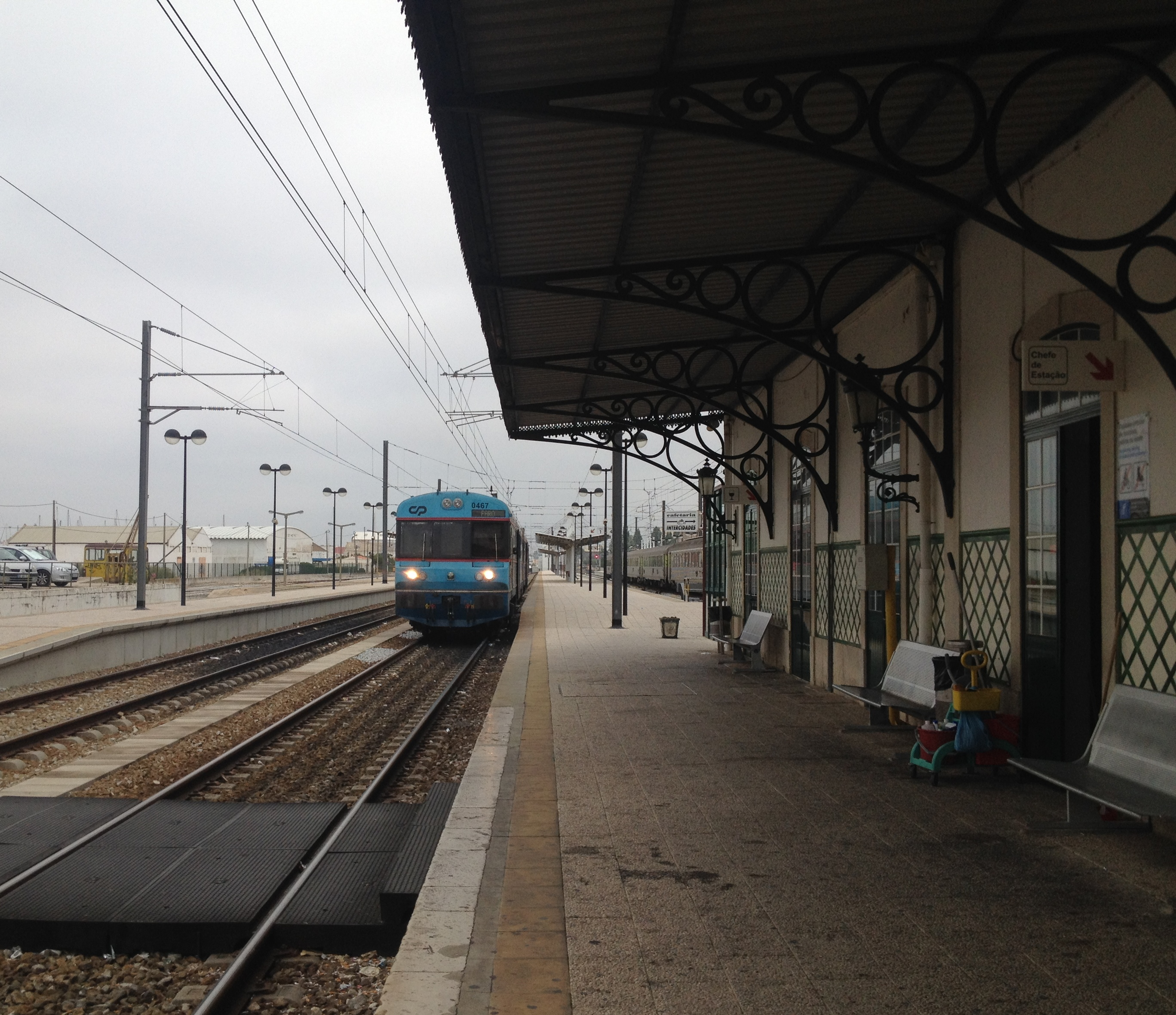 Faro train station, diesel multiple unit (class 450) arriving; Faro, Portugal